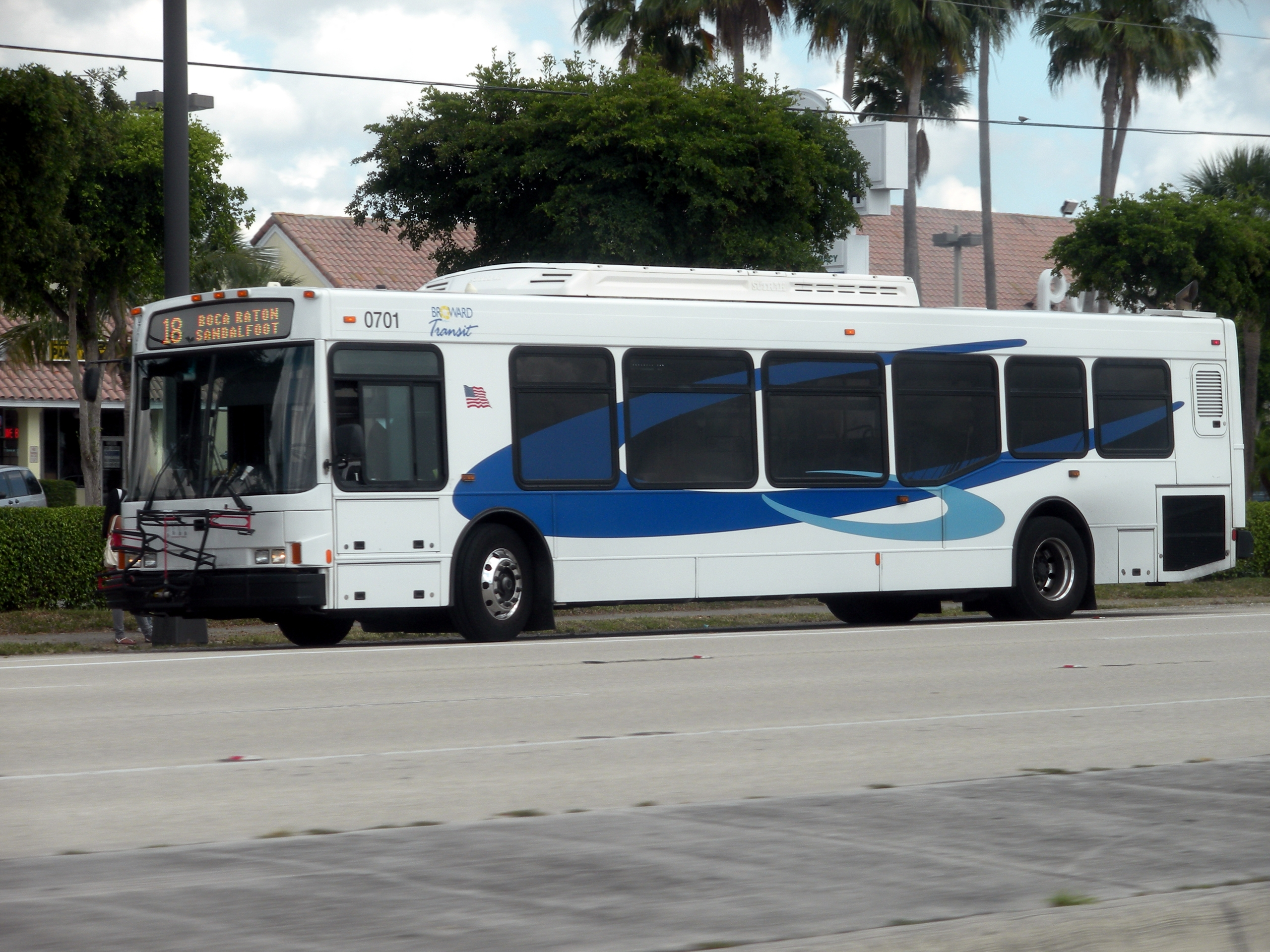 A BCT bus parked at its destination on the #18 line in West Boca Raton, Florida. The bus is a 2007 NABI 40-LFW.